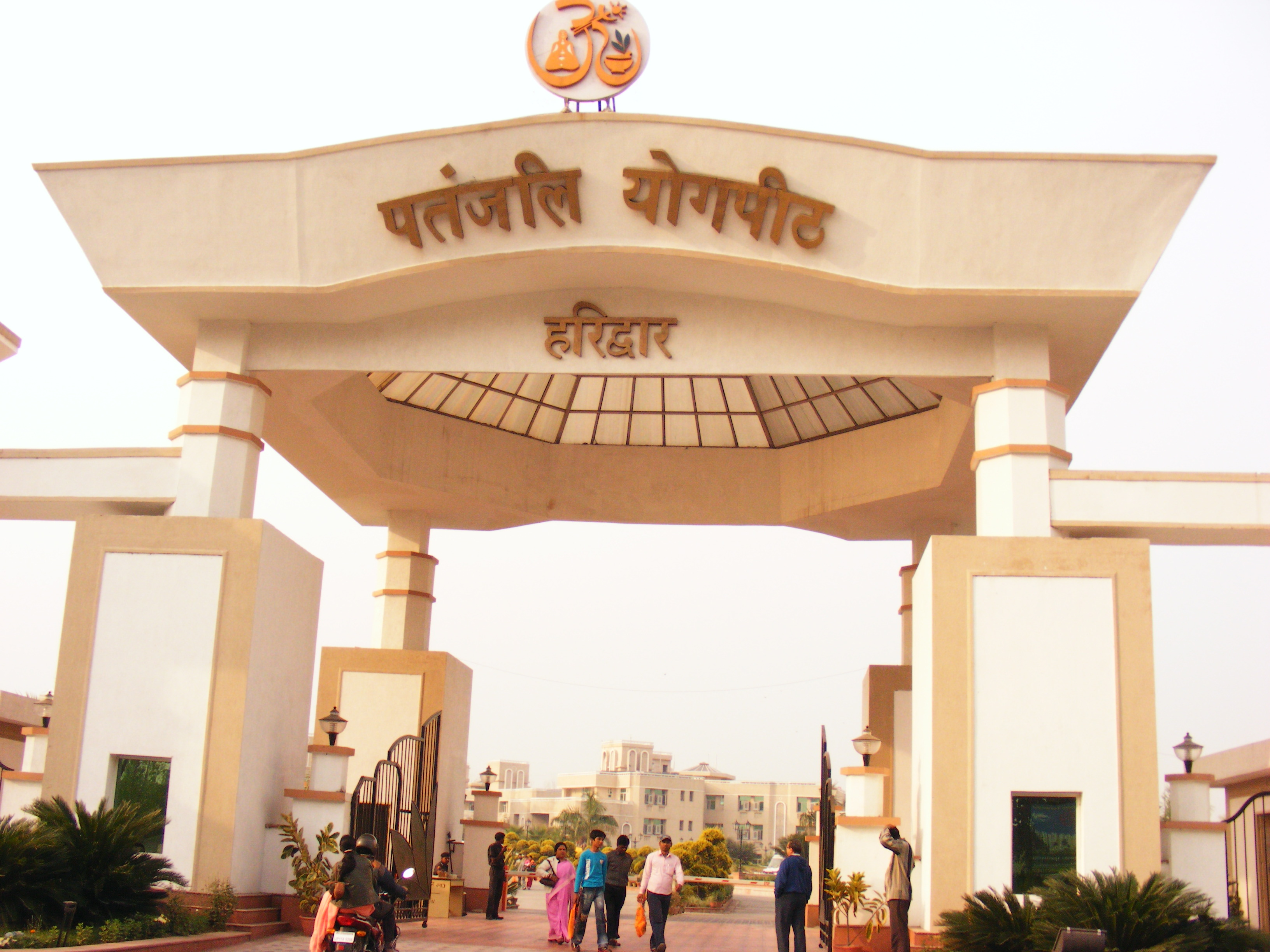 Main Entrance to Yogpeeth